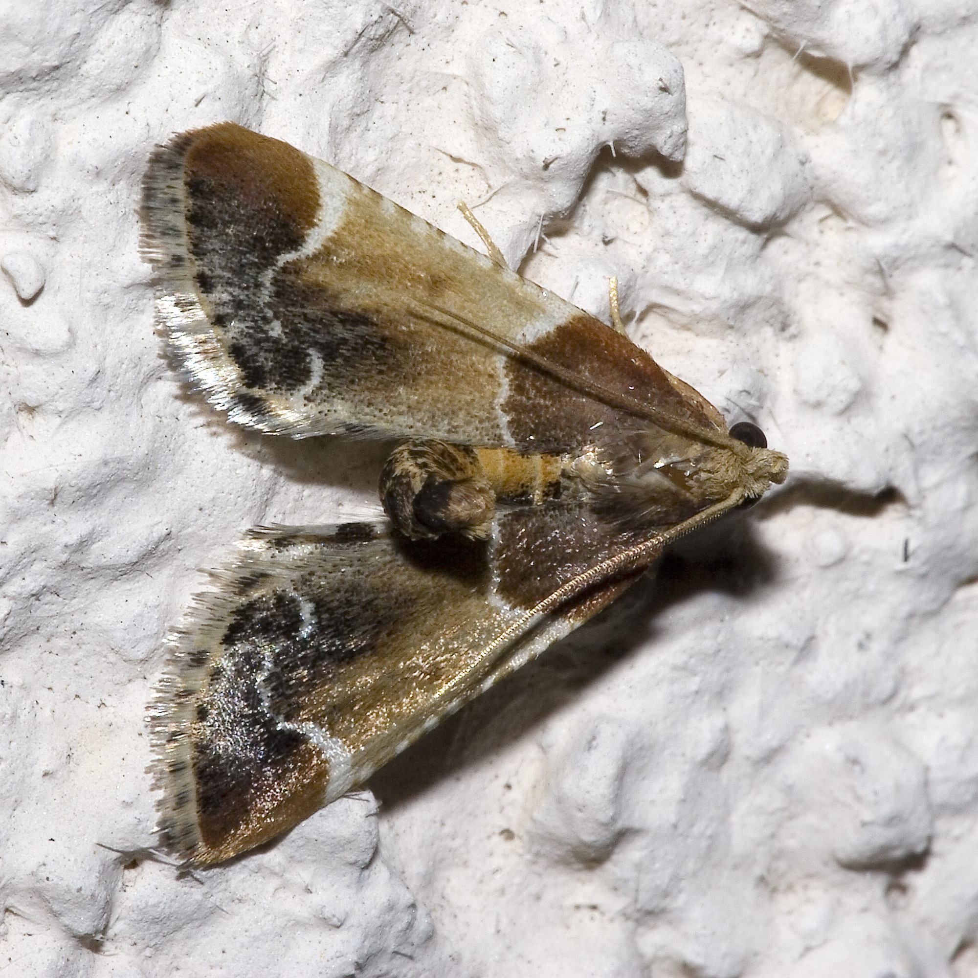 Pyralis farinalis Location: Dresden, Pohrsdorfer Weg (Saxony, Germany) 5/180L f22 Film / Speed: ISO 100 Comment: Canon Flash 580EX